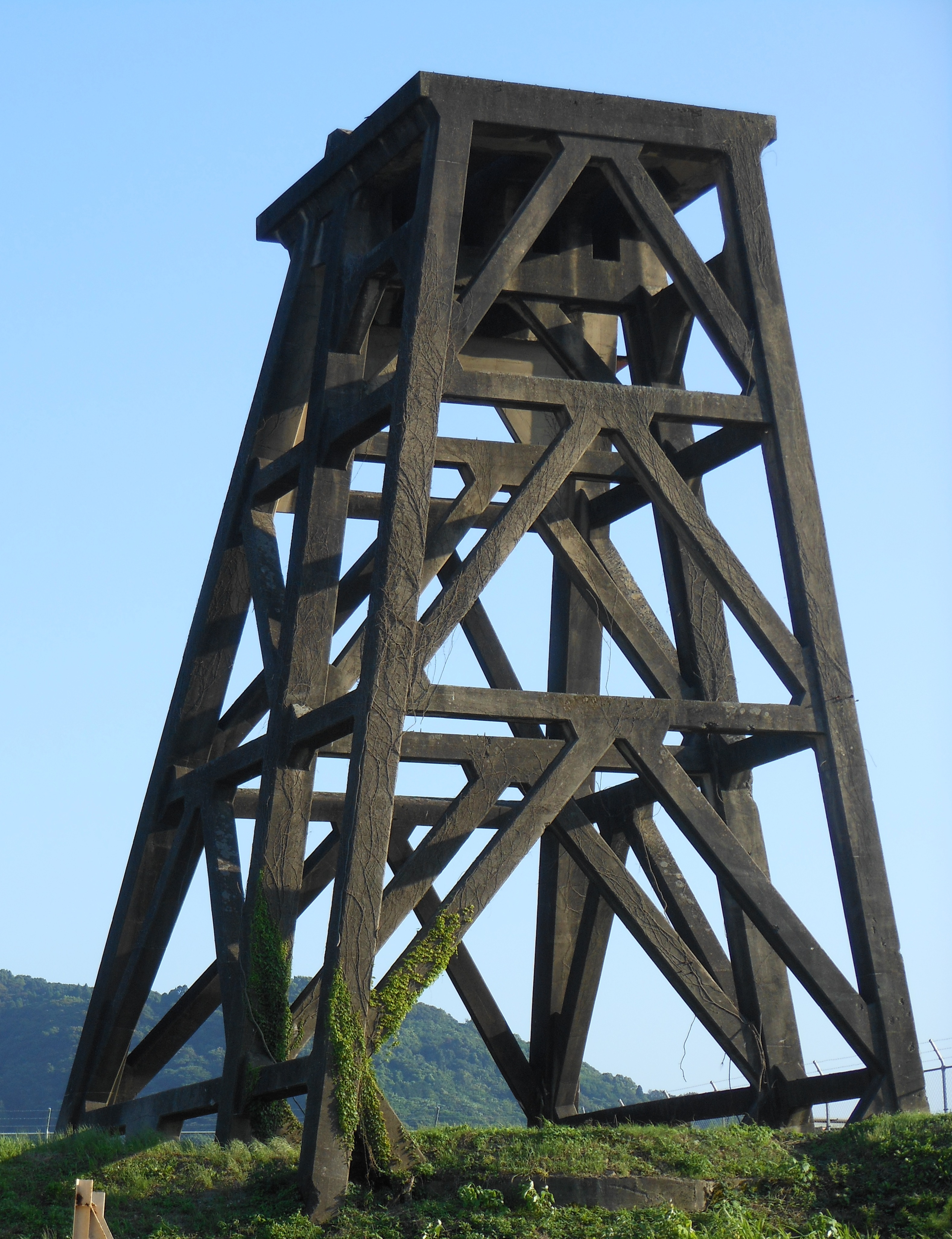 Coal mining derrick(virtical shaft) of Mitsubishi-Kogayama Coal Mine(Closed in 1967). built in 1917, structure:RC, height:about 20m.